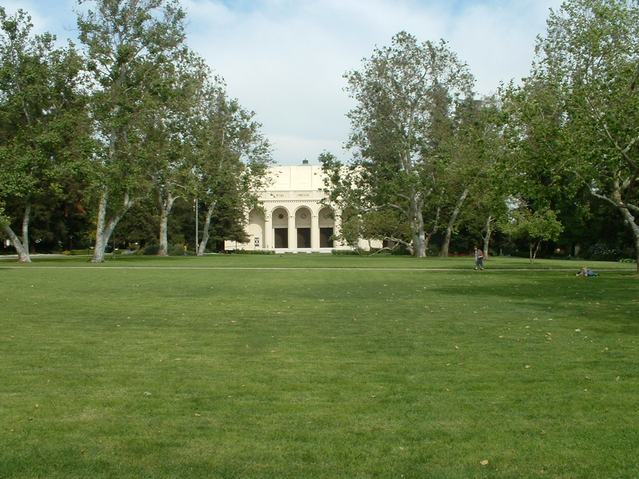 Bridges Auditorium, at Pomona College in Claremont, California. The full name of the 1931 structure is Mabel Shaw Bridges Auditorium, after a student who died as a student at Pomona at the age of 22, in 1907. Its architect was William Templeton Thompson. It was constructed for about $600,000, and seats about 2500. In front of the auditorium is the Marston Quad, a focal point of the campus. It is known on campus as 'Big Bridges', to distinguish it from Bridges Hall of Music (Little Bridges).